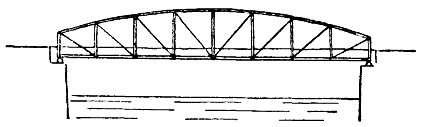 Iron truss bridge